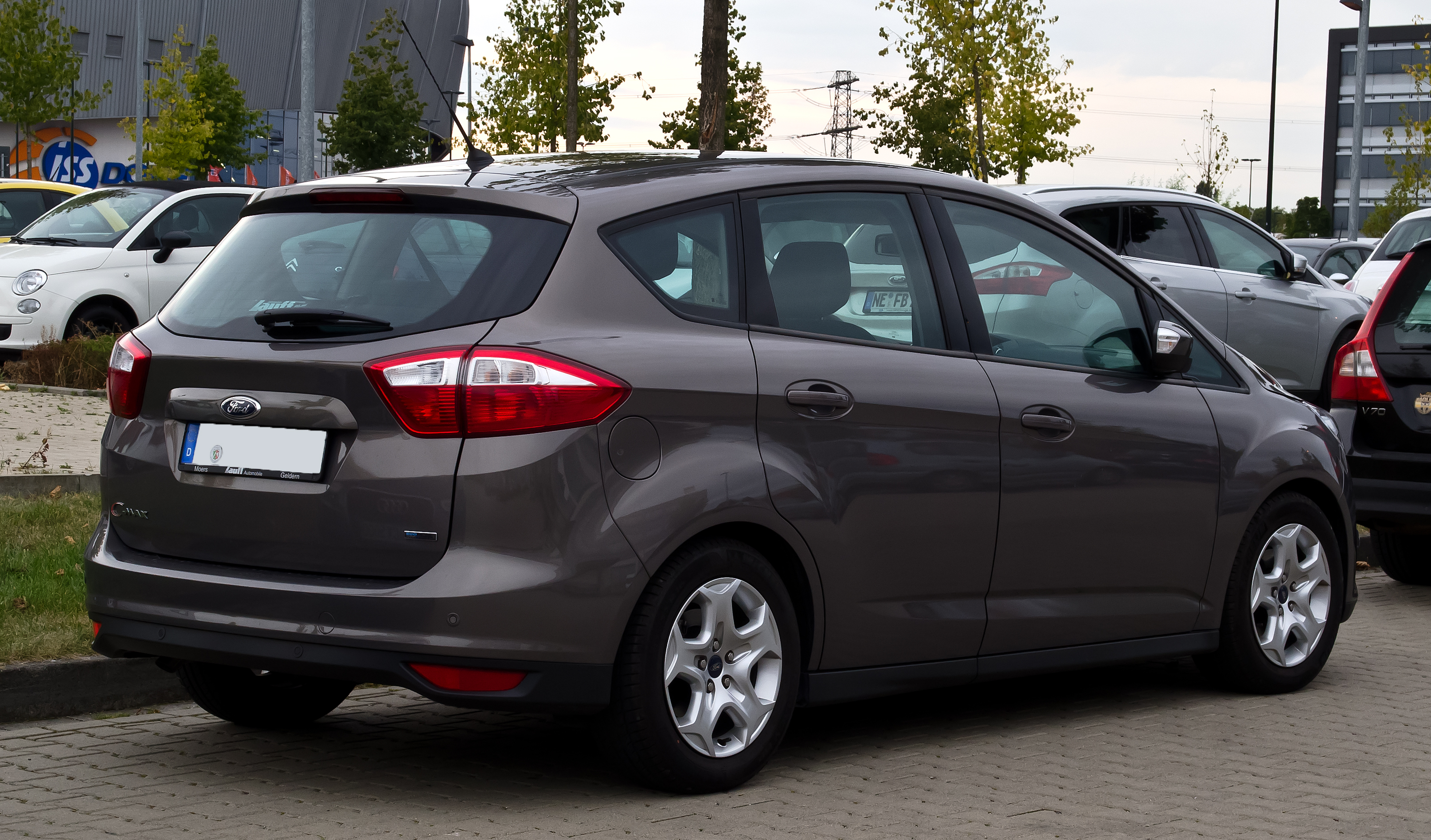 Ford C-Max 1.6 TDCi ECOnetic Trend (II)